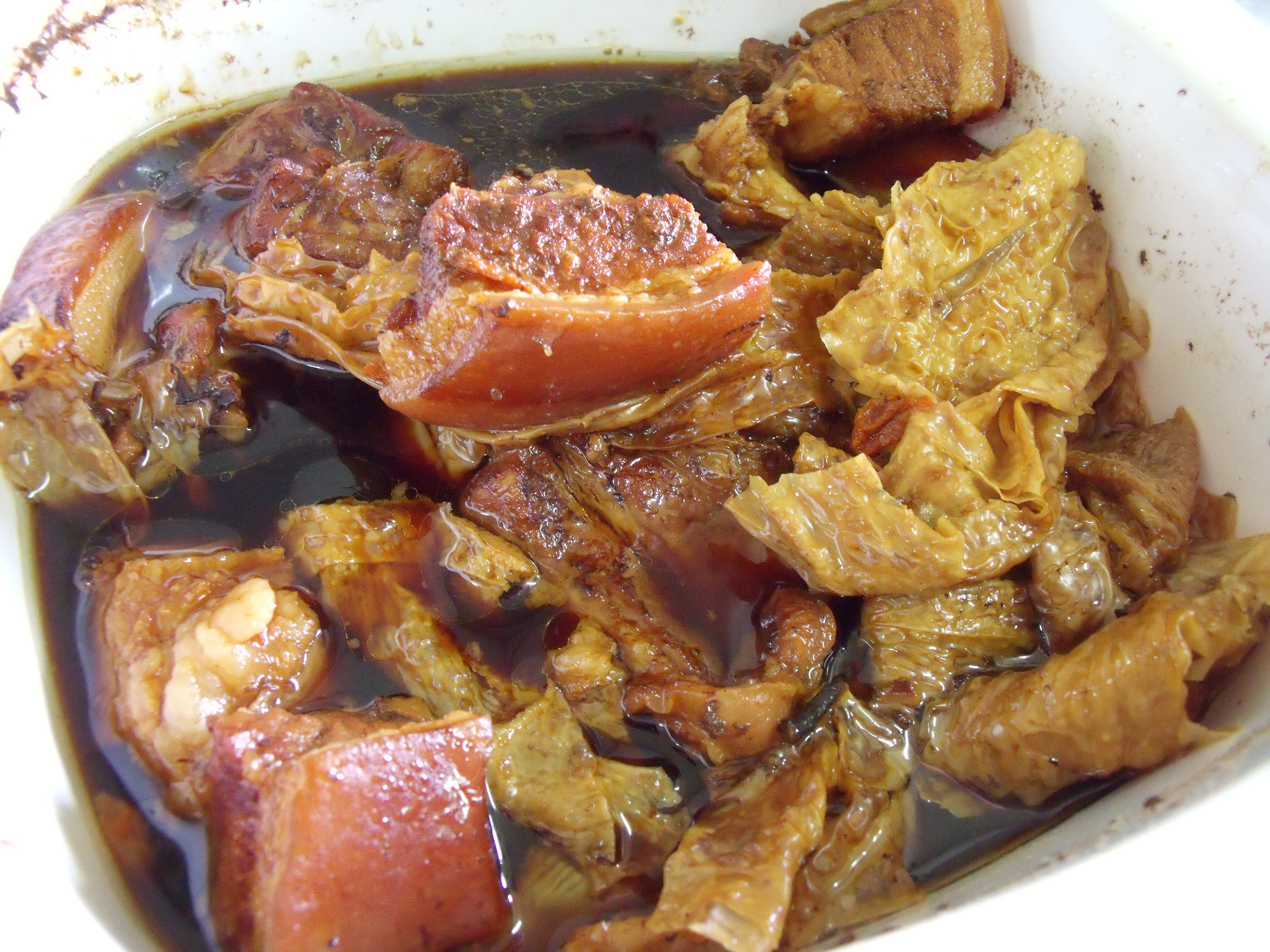 Braised pork belly prepared by my mother.